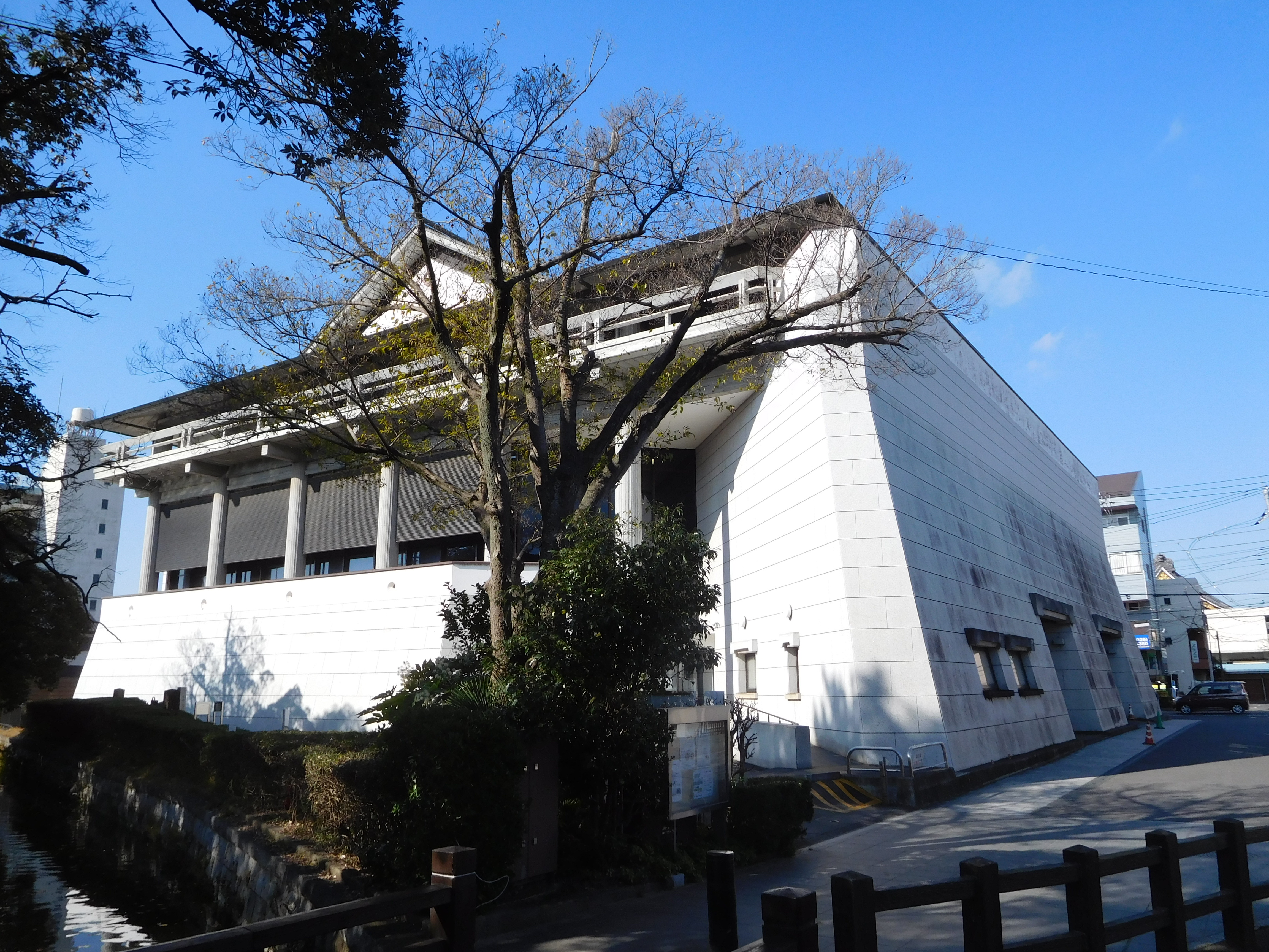 This is the Tsuchiura city museum in Tsuchiura, Ibaraki, Japan.